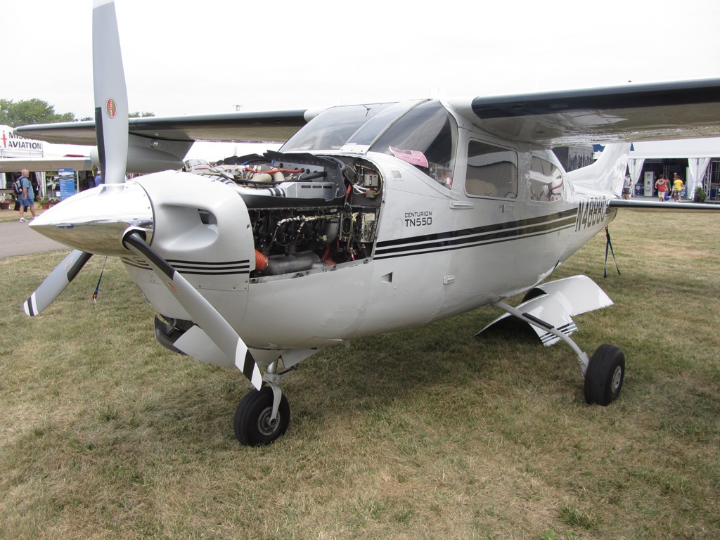 Vitatoe Cessna Centurion TN550